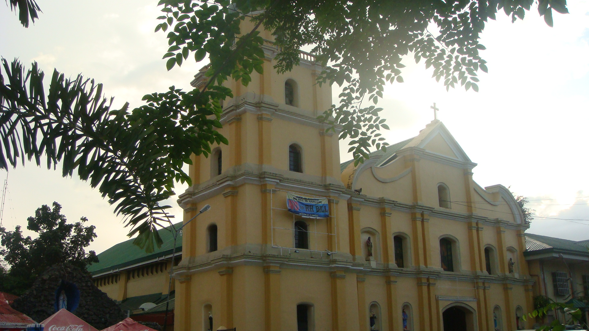 Cathedral Parish of Saint Joseph the Patriach, City of Alaminos, Pangasinan